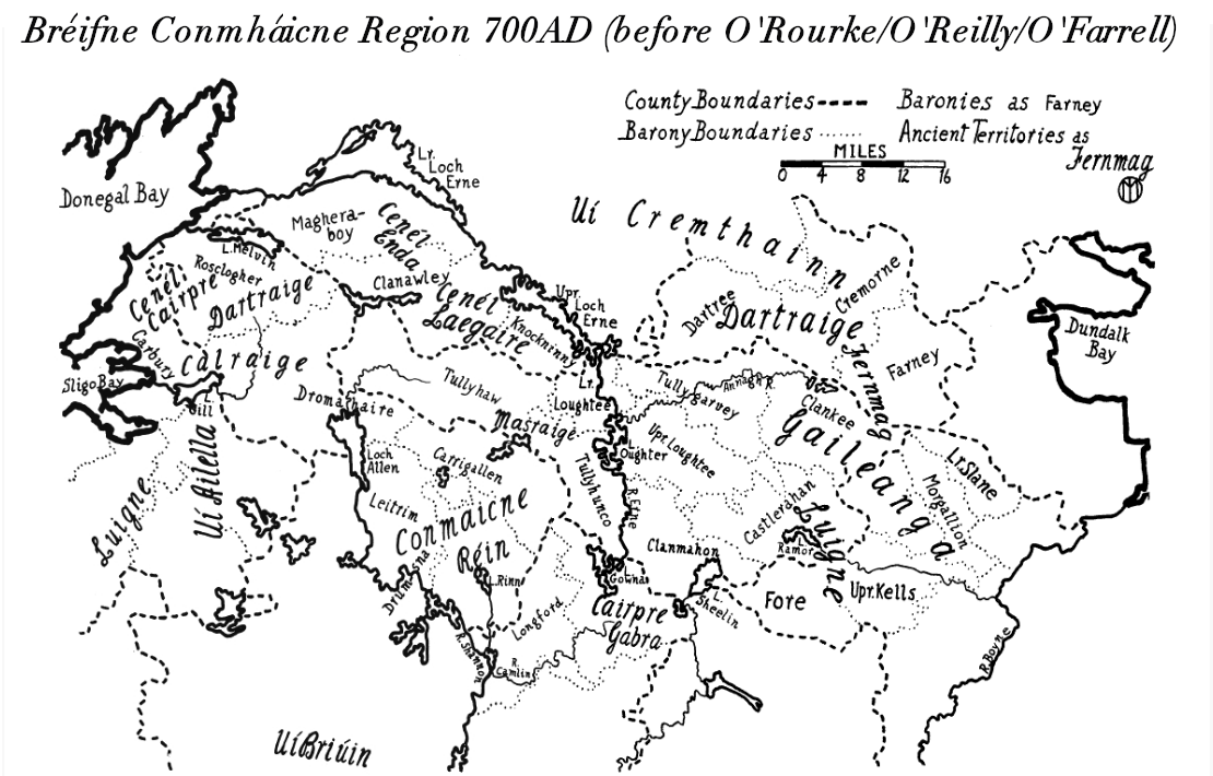 Map of Bréifne Region Circa 700AD